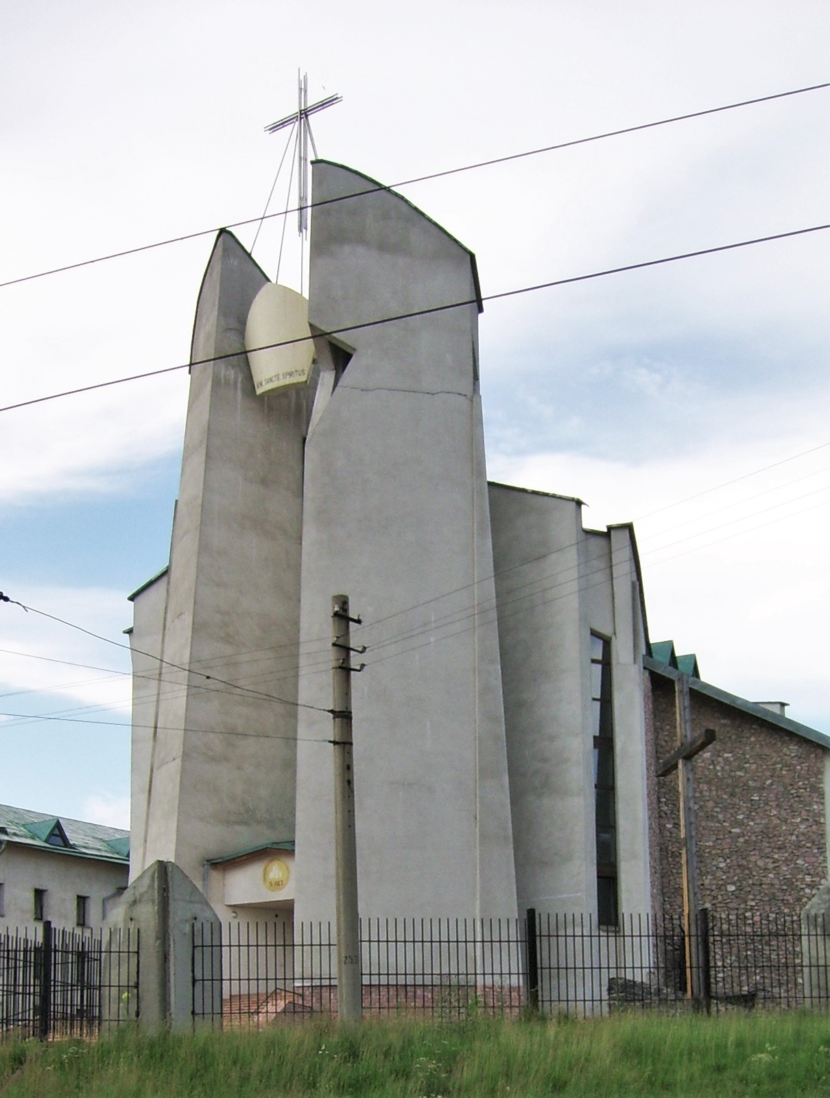 Catholic Cathedral in Irkutsk